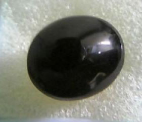 Kecubung Wulung